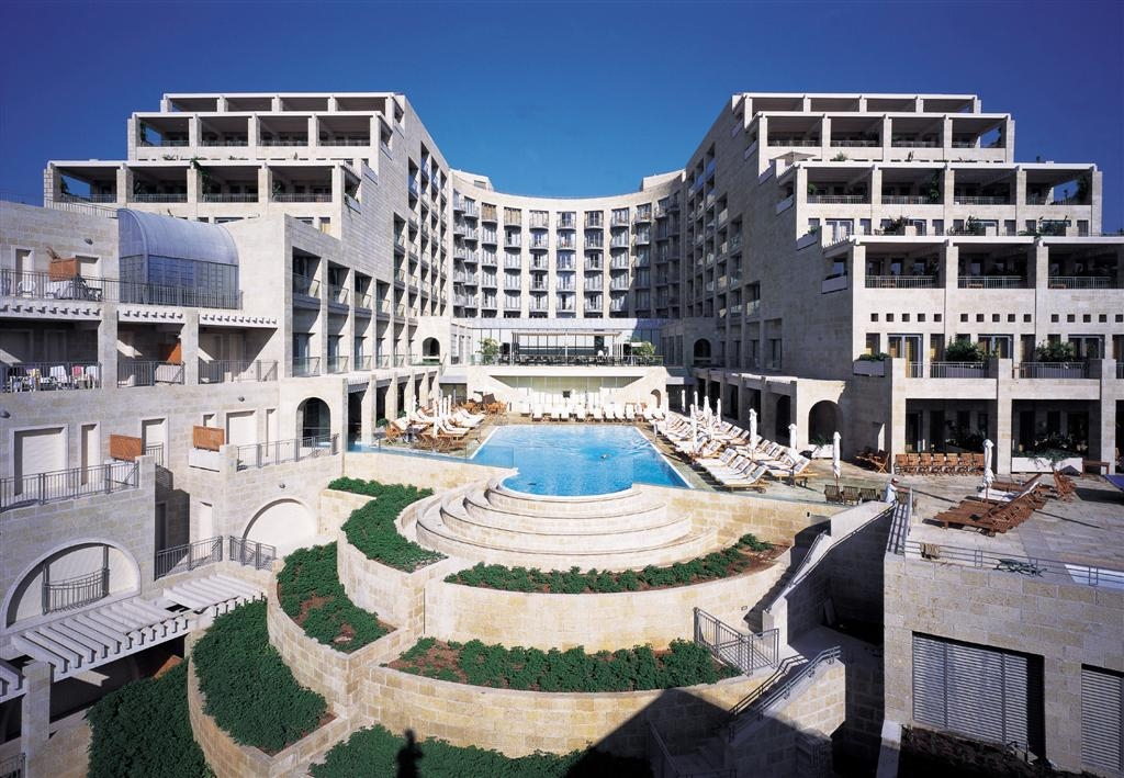 Back view of David Citadel hotel, Jerusalem